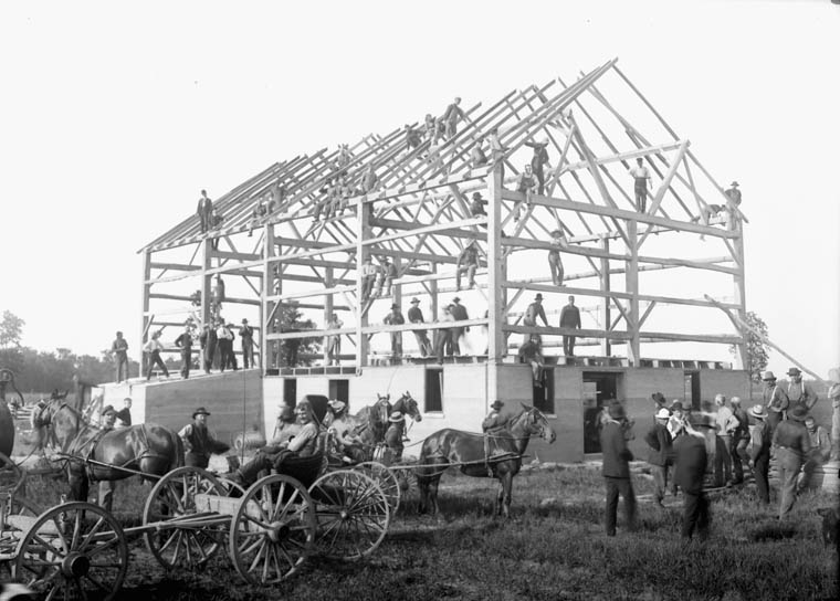 Barn raising - Leckie's barn completed in frame.